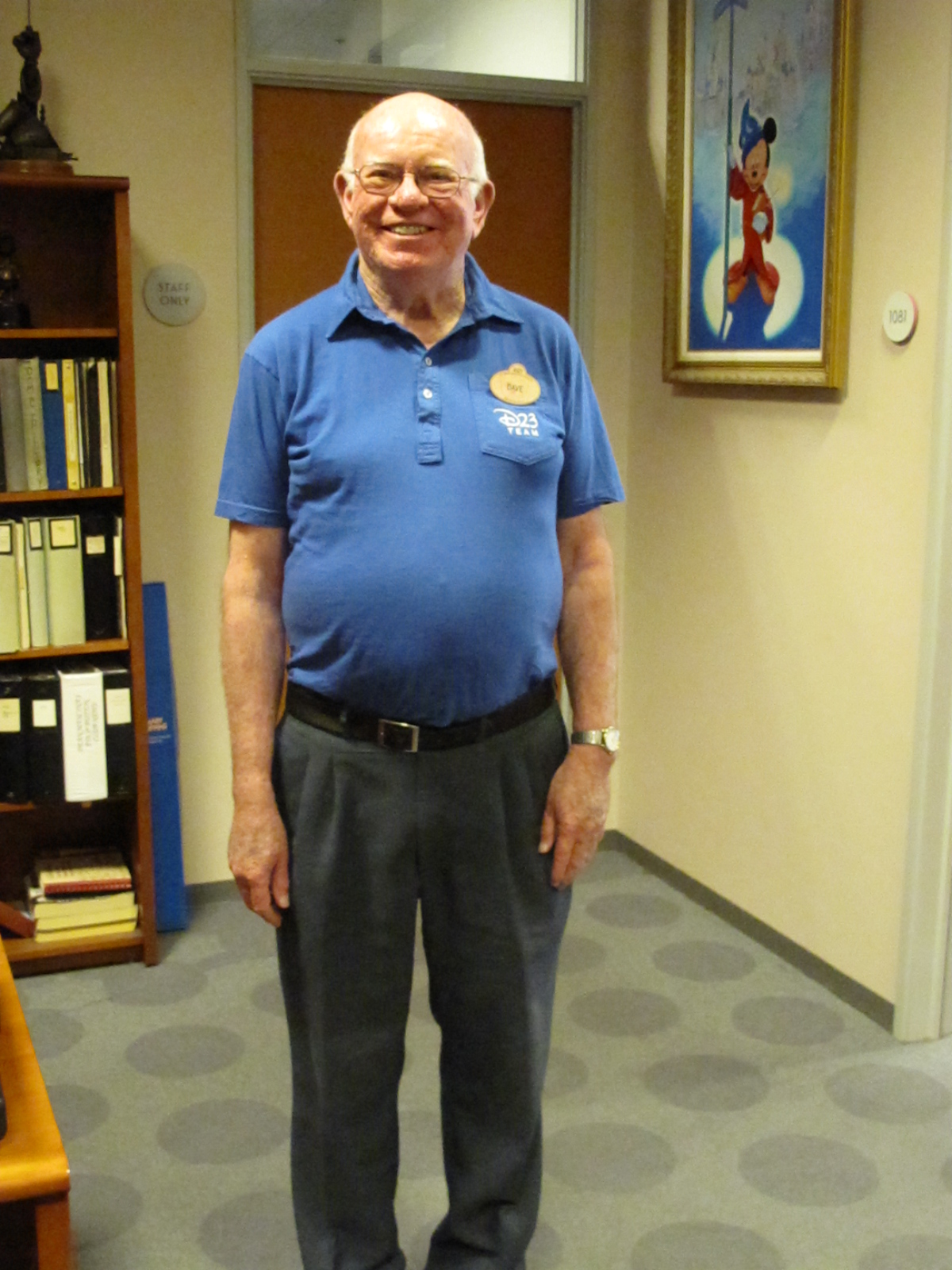 Dave Rollin Smith (1940–2019) worked as chief archivist for The Walt Disney Company from June 22, 1970 until mid-2010, then continued as a consultant to the firm until his death.